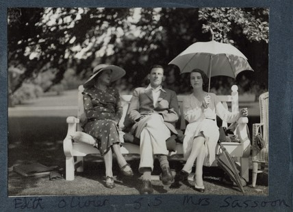 Edith Olivier Siegfried Loraine Sassoon Hester Sassoon (nee Gatty)